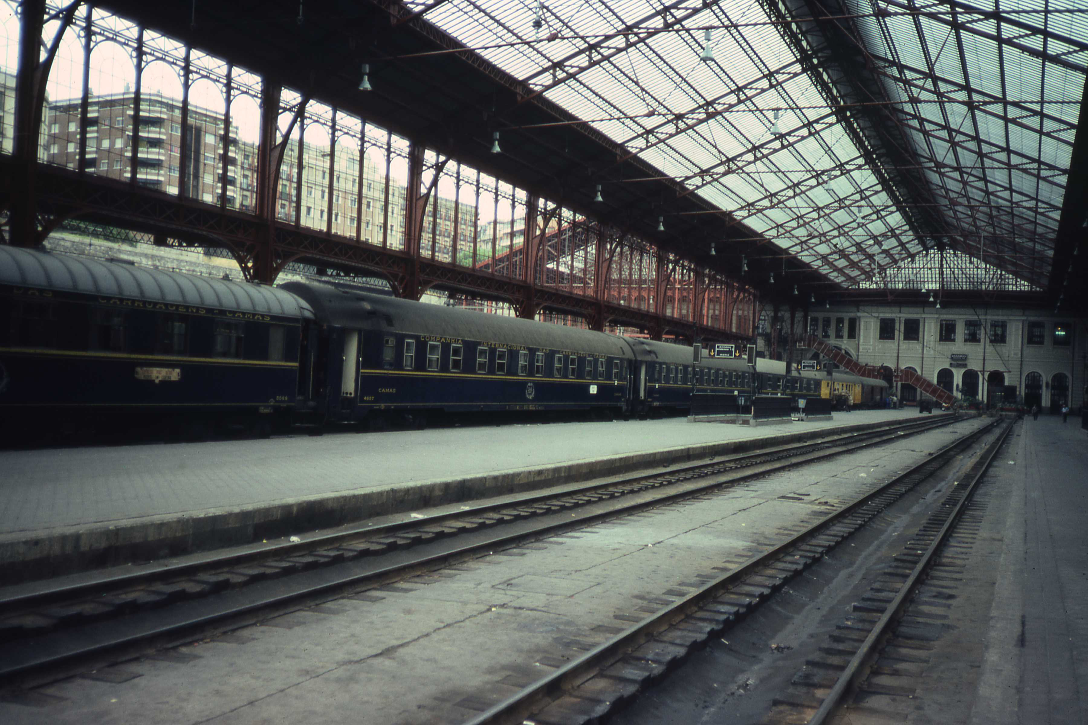 Sleepingcar train in station Principe Pío in Madrid in 1981